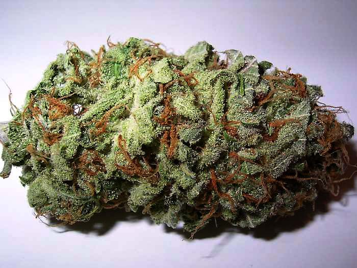 Some cannabis bud, which is well-cured (i.e. dried slowly following a specific procedure). The strain is Sweet Tooth #3 [1].